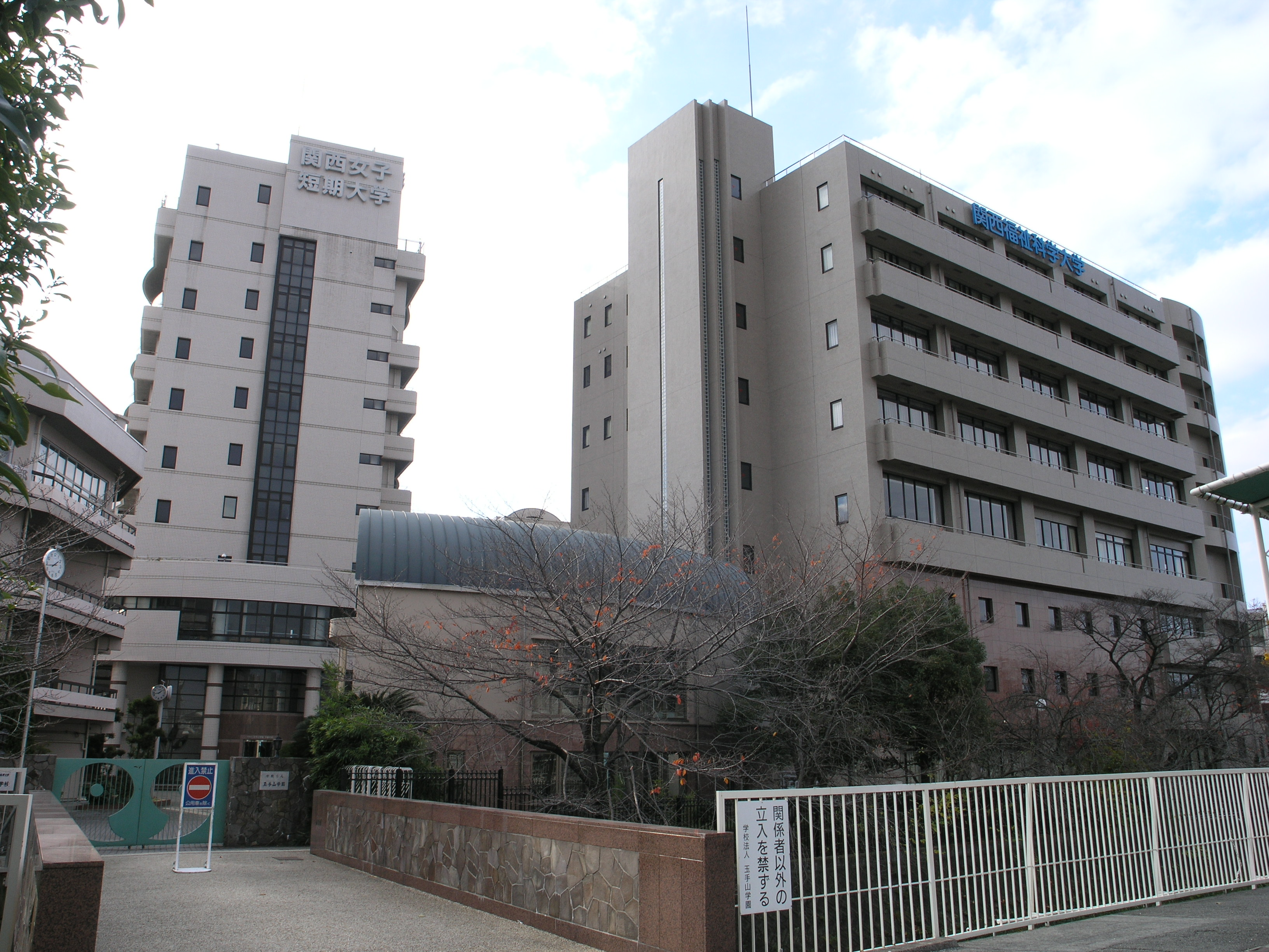 Kansai Women's College and Kansai University of Welfare Sciences, Kashiwara, Osaka